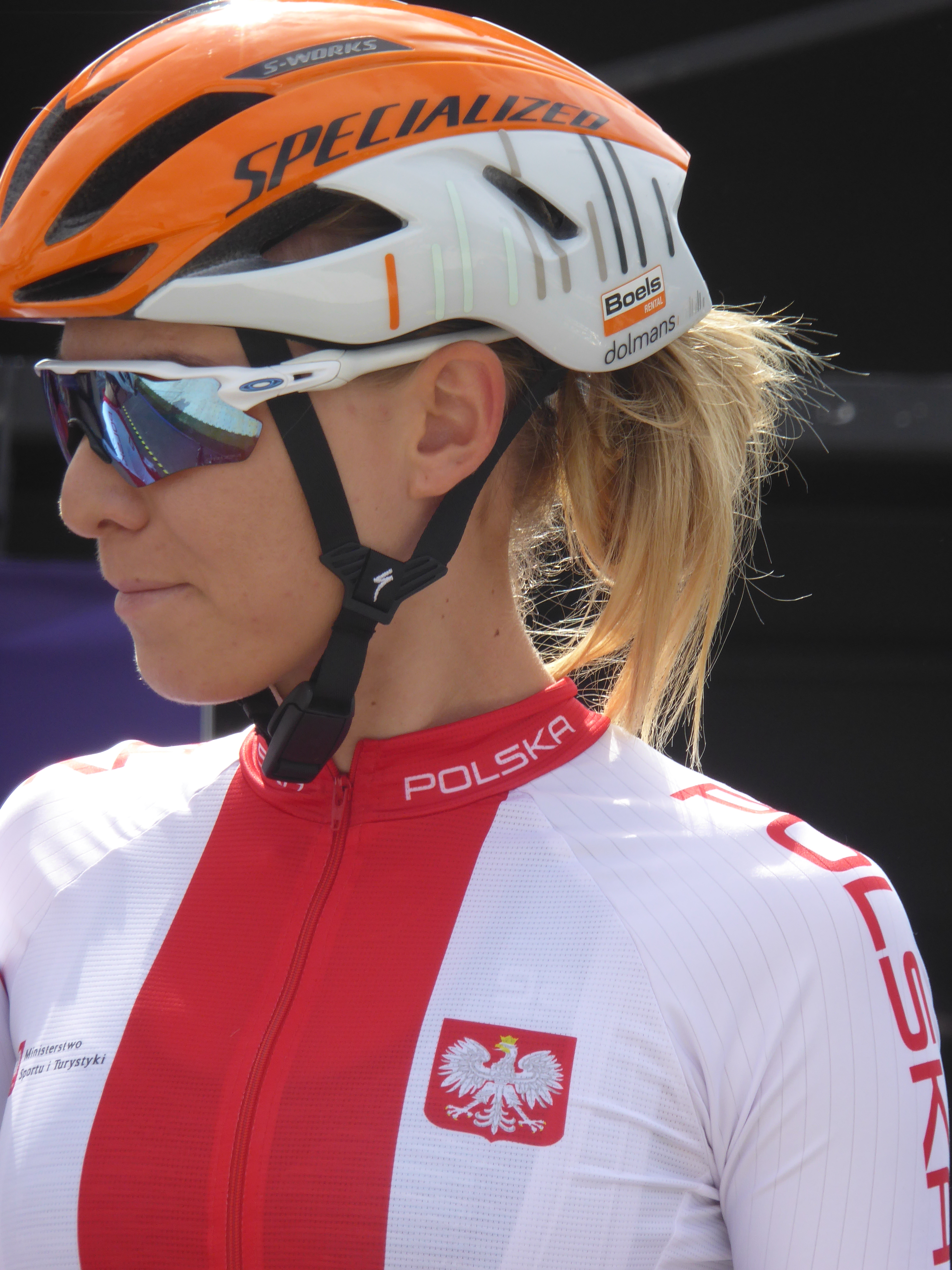 Anna Plichta (Poland), prior to the women's road race at the 2018 UEC European Road Cycling Championships in Glasgow.